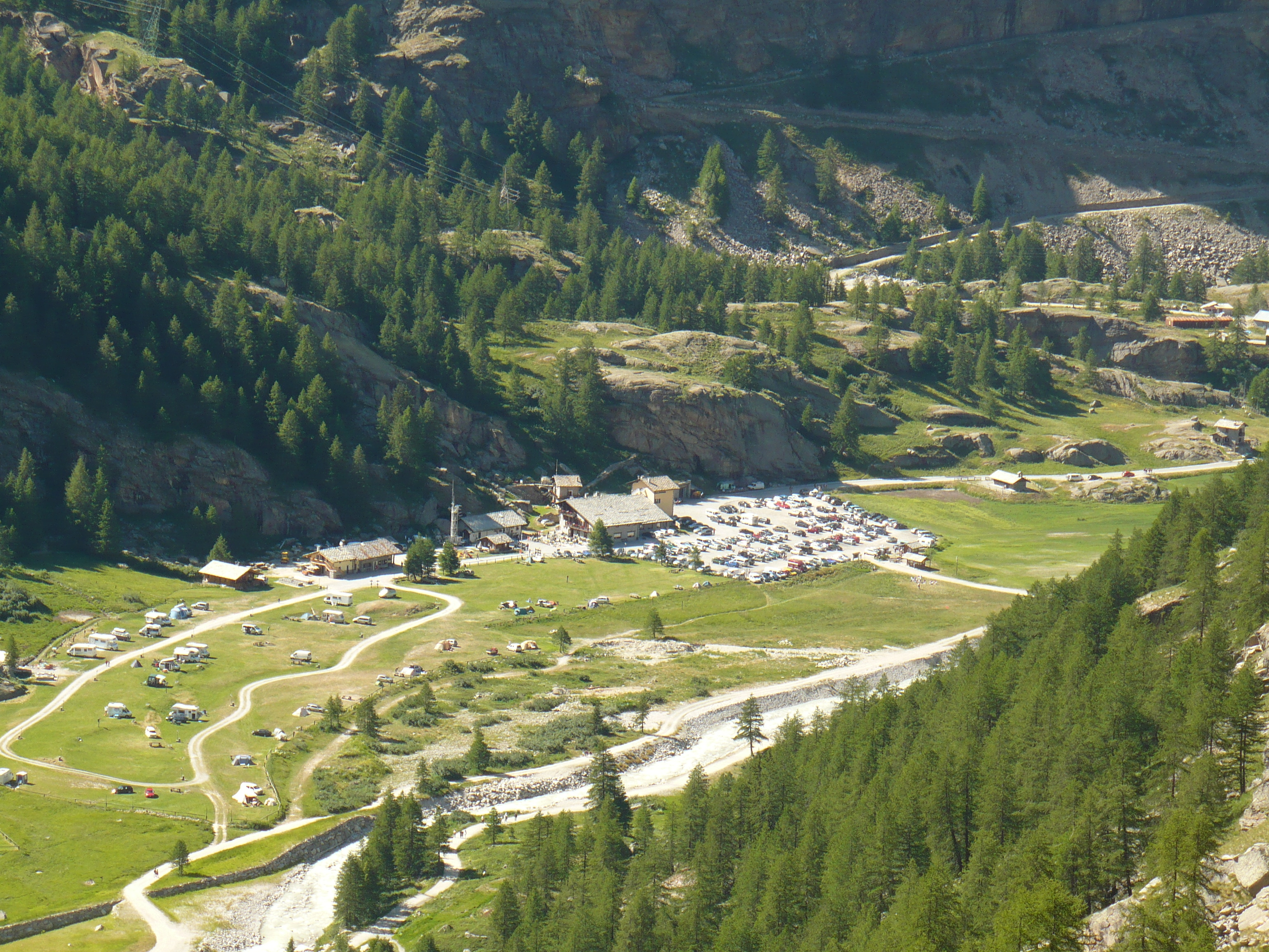 Pont Valsavarenche; Aosta Valley; Italy